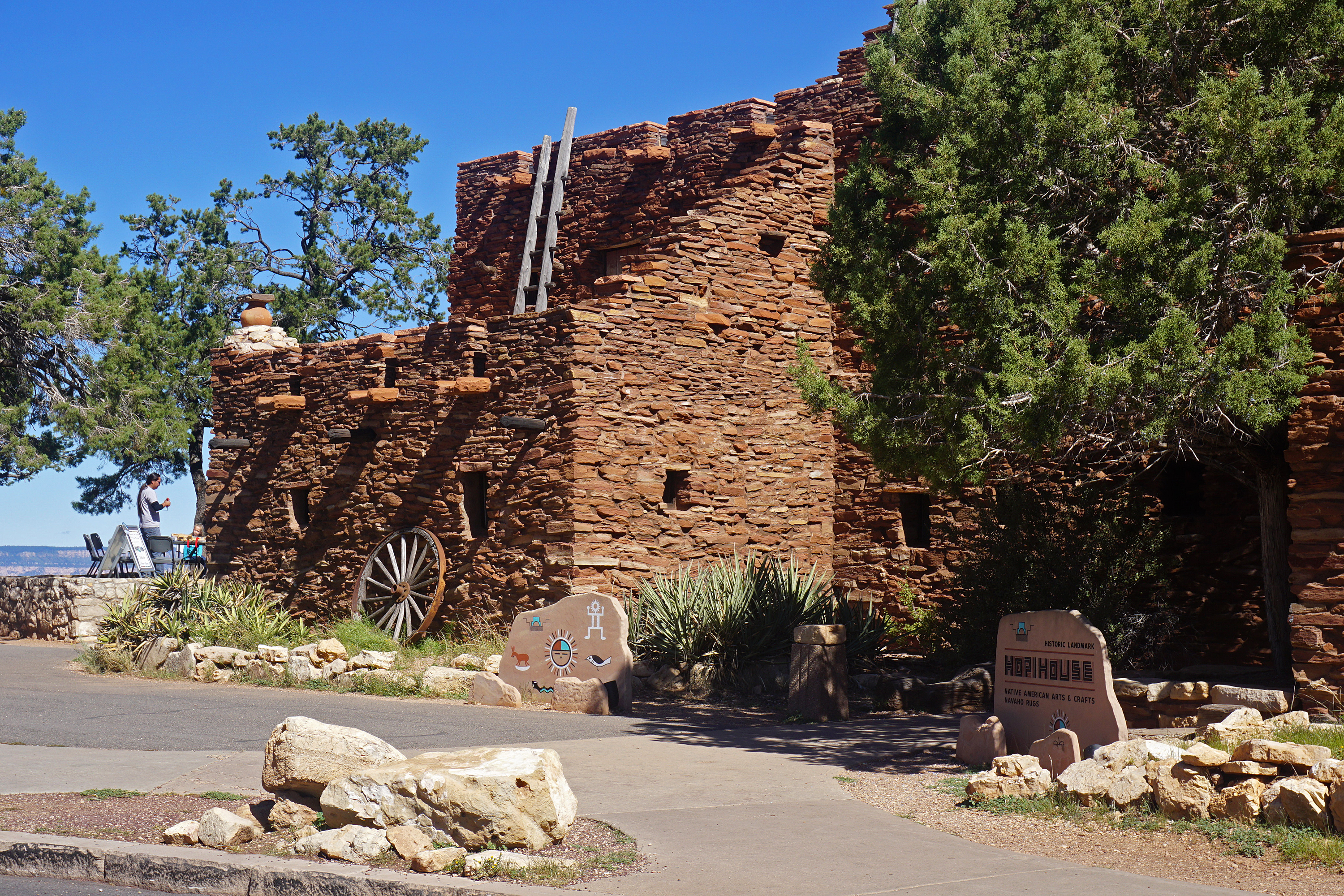 Hopi House, Grand Canyon Village, Arizona